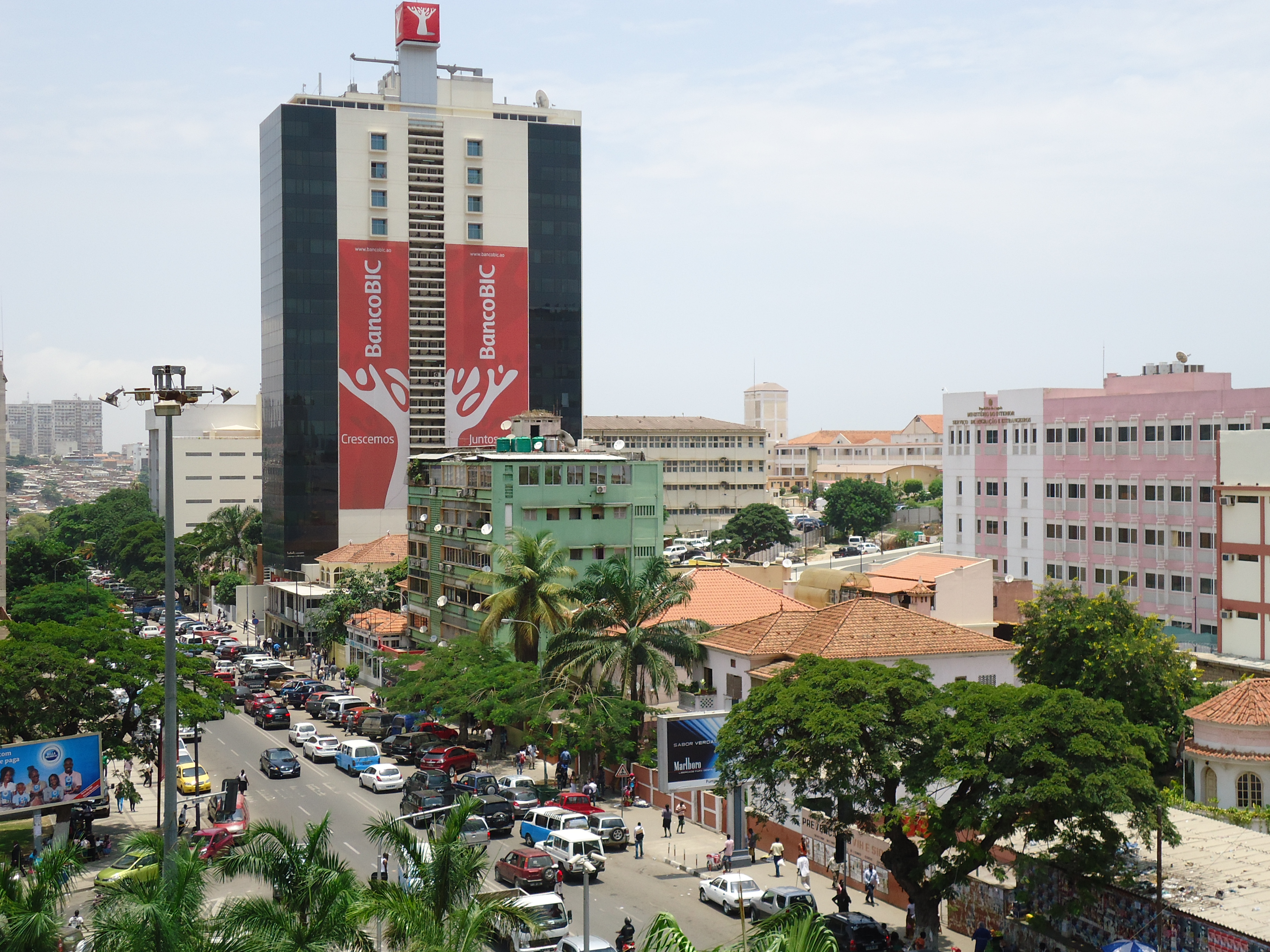 Avenida Amilcar Cabral Luanda. Photo by Fabio Vanin, 2013.